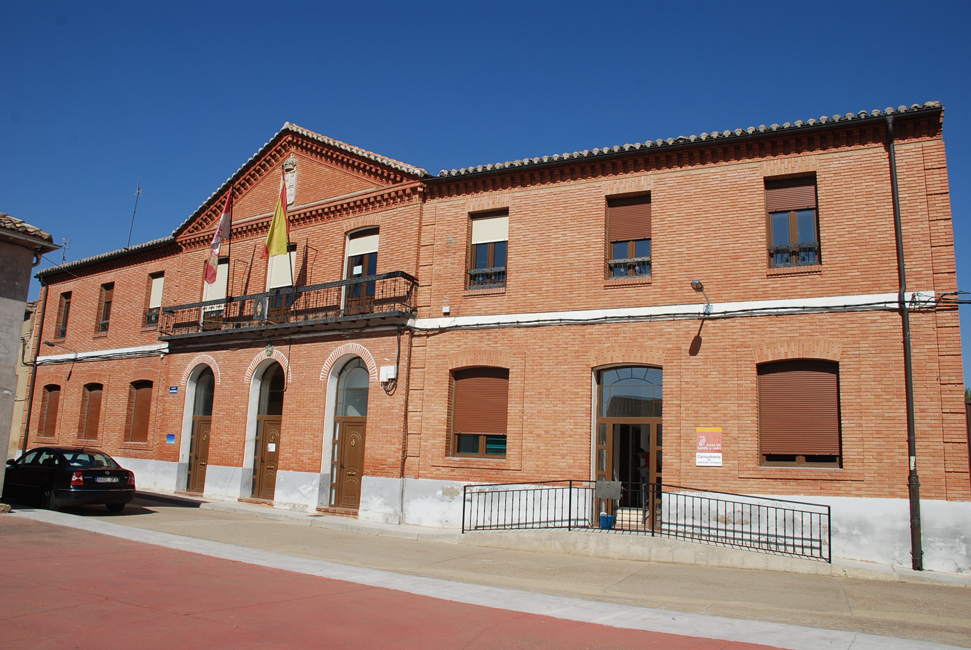 Town hall of Villasarracino (Palencia, Castile and León).